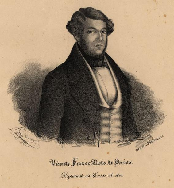 Portrait of Vicente Ferrer Neto de Paiva (1798-1886), a philosopher, professor at the University of Coimbra, Portugal.